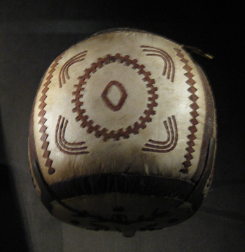 Inupiaq high-kick ball, ca. 1910, from Barrow, Alaska, made of seal skin, moss, and sinew, collection of the National Museum of the American Indian, George Gustav Heye Center, New York